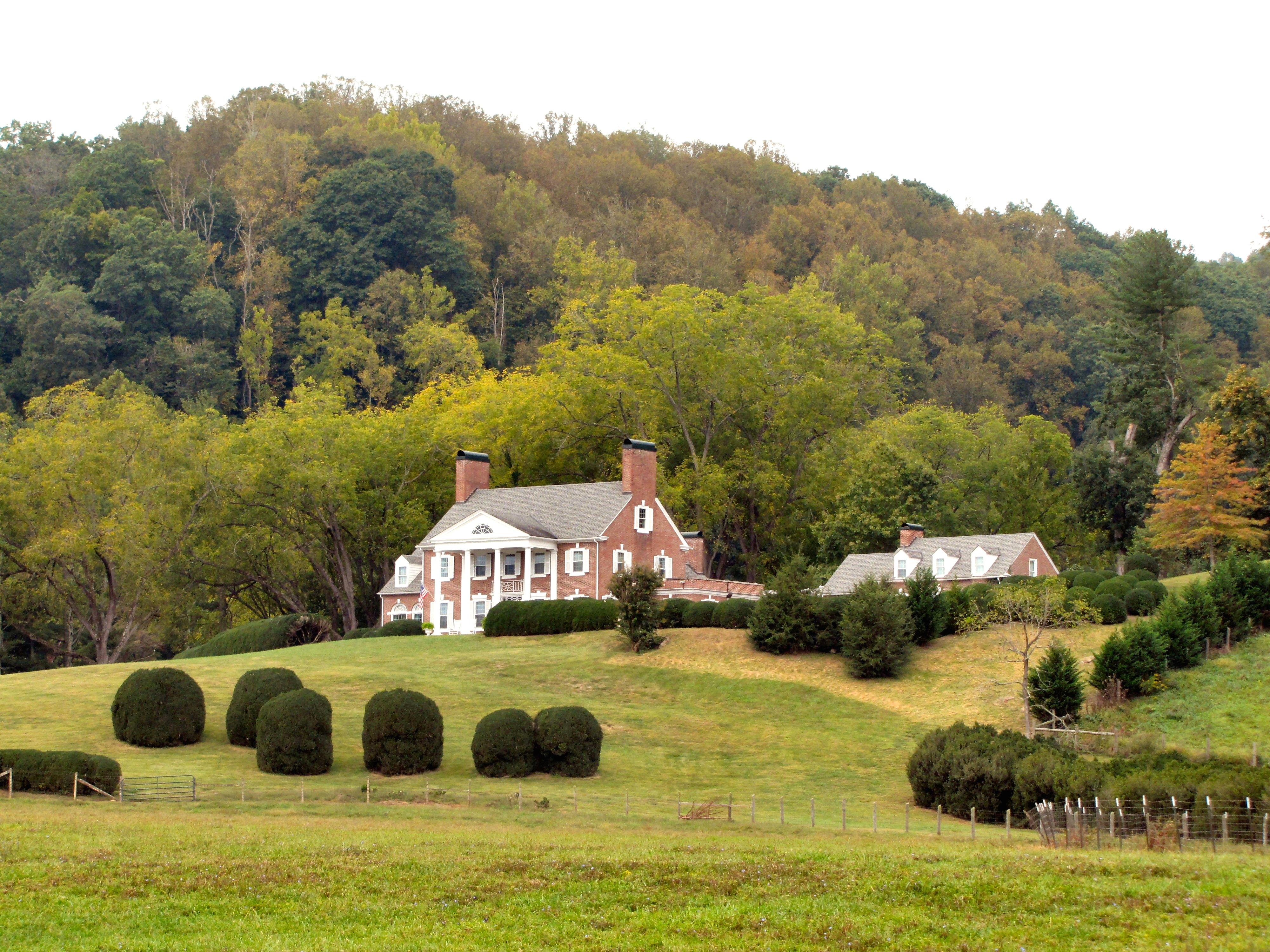 Maywood, a house on the Maymead Farm in Johnson County, Tennessee, United States.